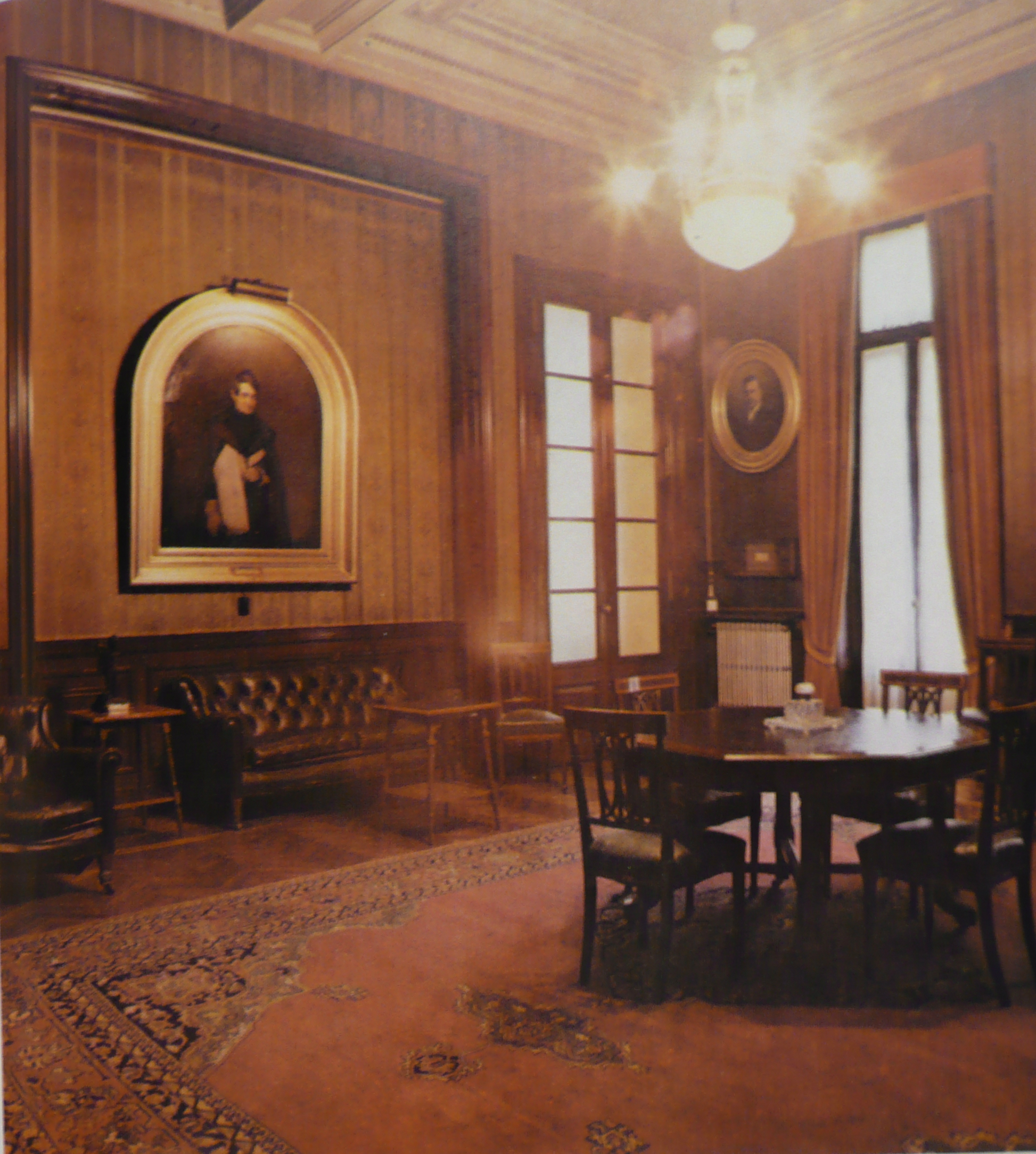 Published 1984.